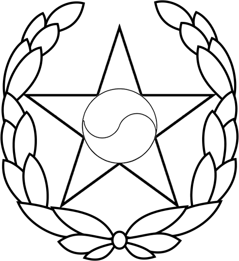 Emblem of the Korean People's Army, used for a few months in 1948, before the current North Korean flag was adopted